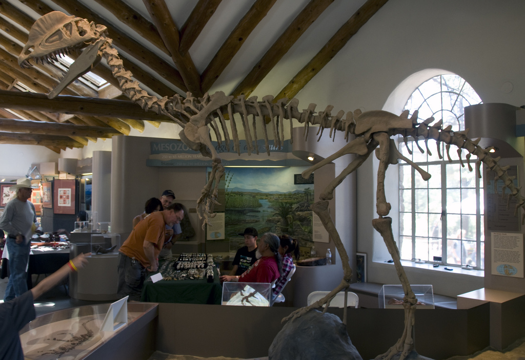 Dilophosaurus Museum of Northern Arizona, Flagstaff, AZ